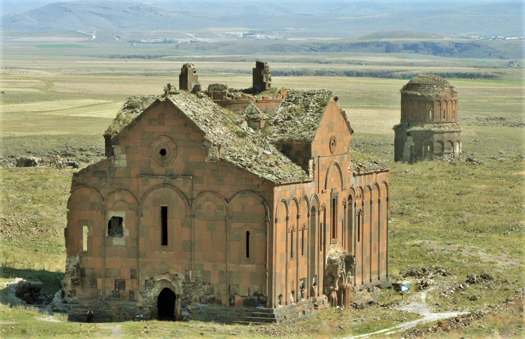 Ruins of the Cathedral of Ani and the church of Redeemer in Ani, an ancient capital of Armenia in the 10th century.